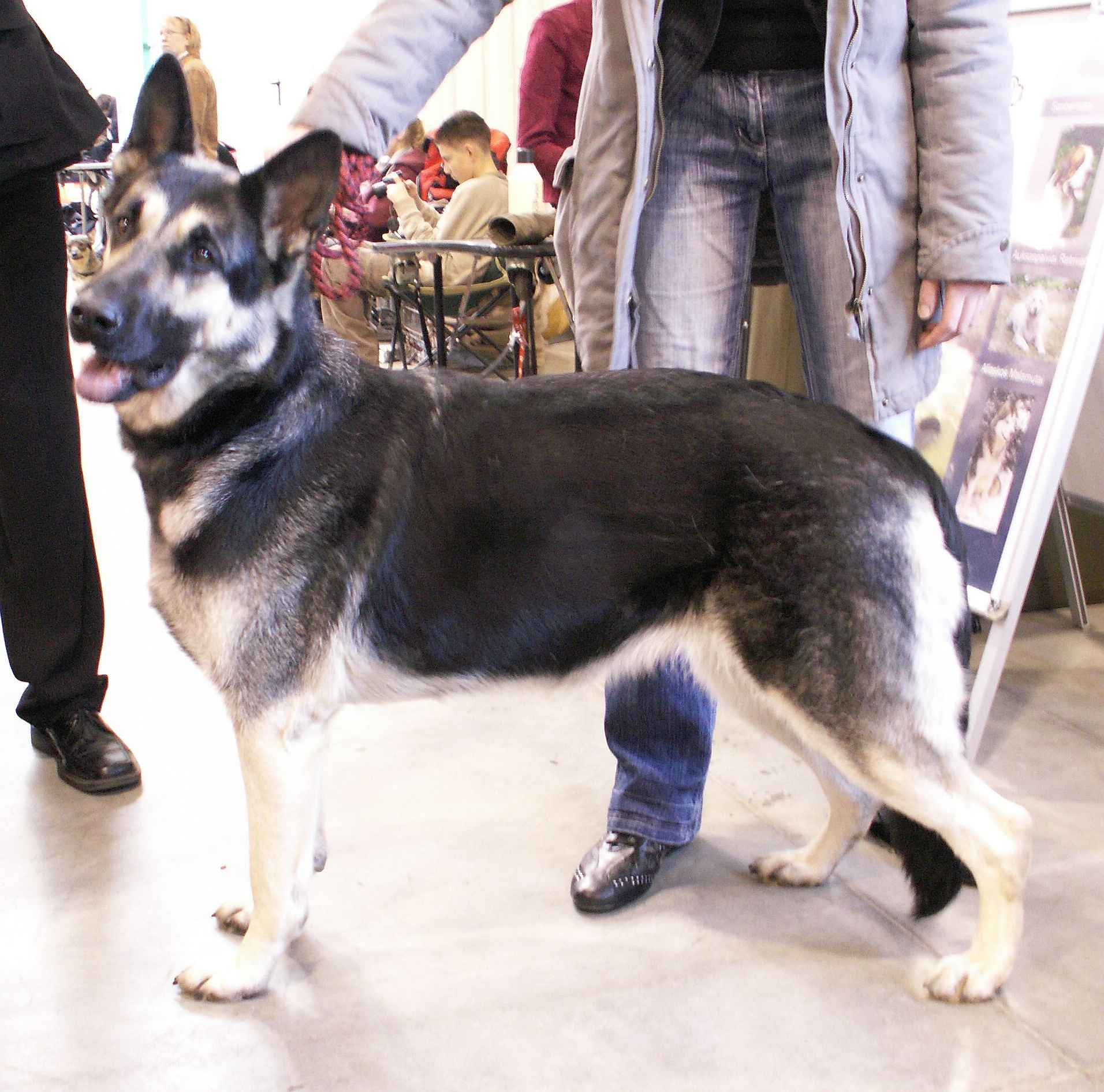 East-European Shepherd